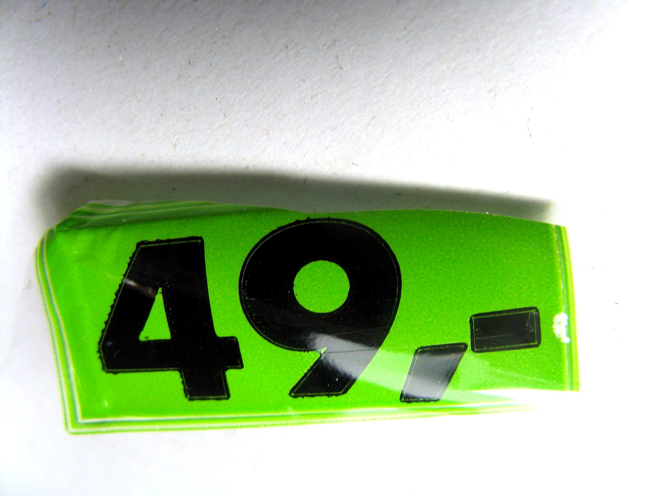 Price